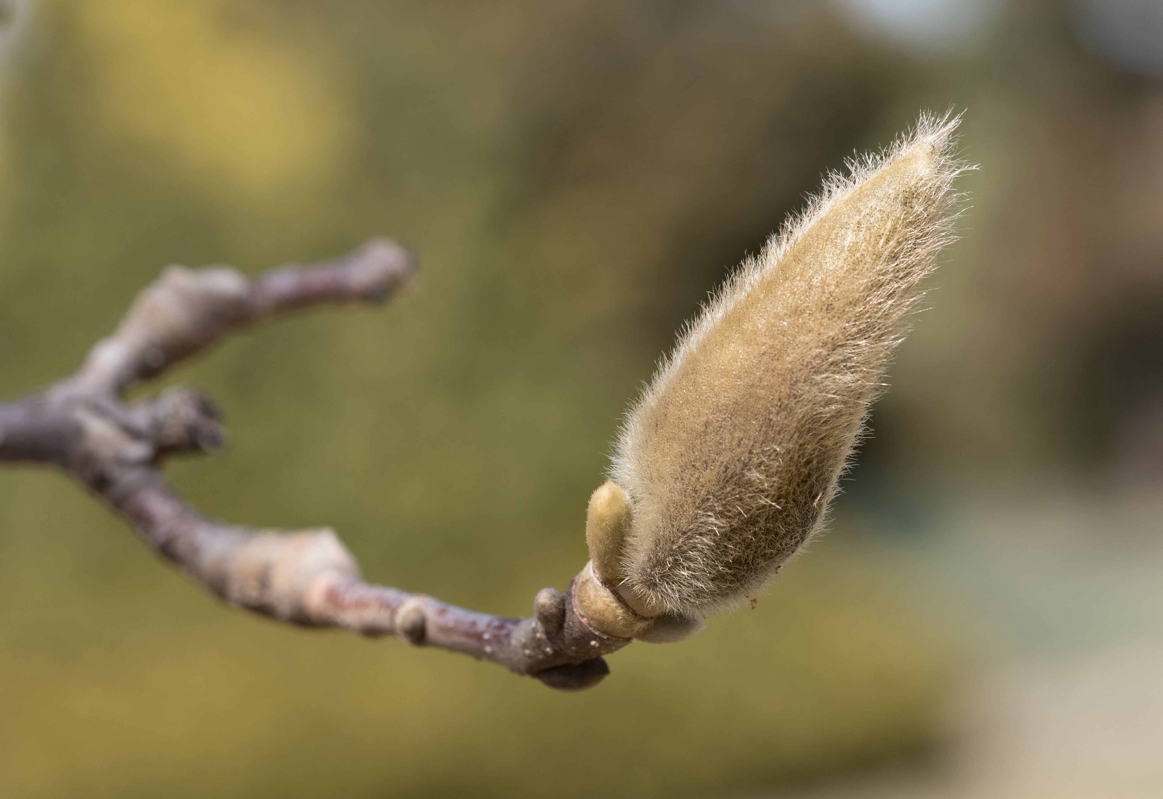 Magnolia x veitchii bud at Brooklyn Botanic Garden